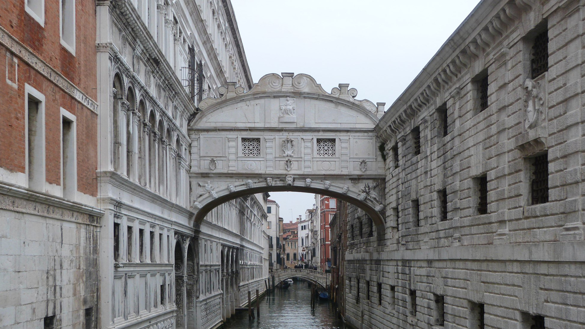 The Bridge of Sighs is a bridge located in Venice, northern Italy. The enclosed bridge is made of white limestone and has windows with stone bars. It passes over the Rio di Palazzo and connects the New Prison to the interrogation rooms in the Doge's Palace. It was designed by Antoni Contino and was built in 1602. The view from the Bridge of Sighs was the last view of Venice that convicts saw before their imprisonment.